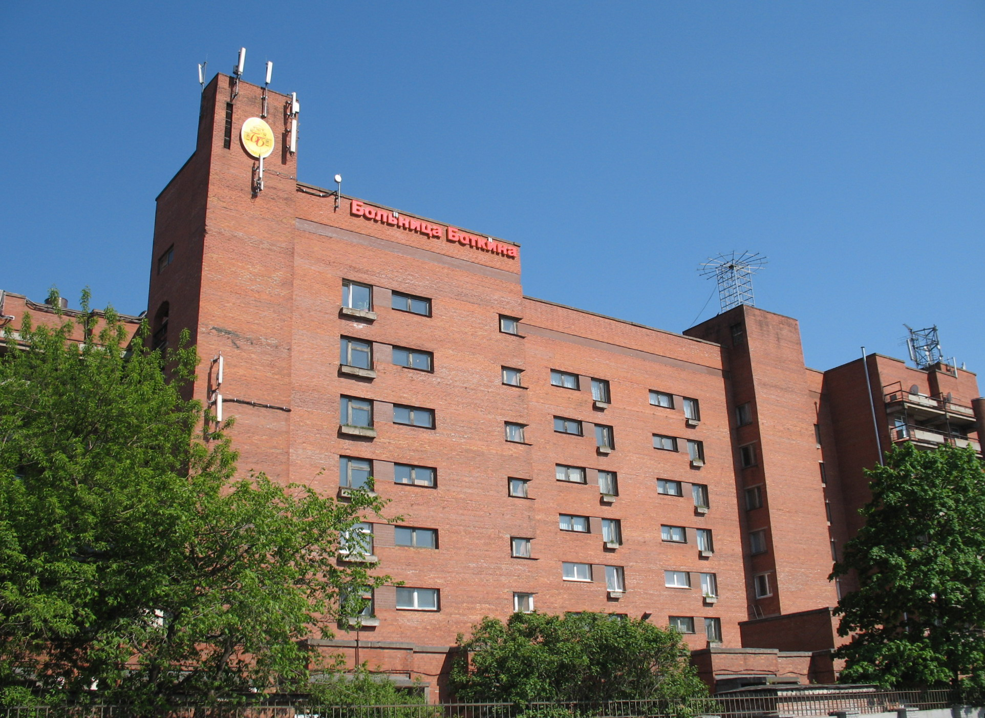 Botkin Clinical Hospital for Infectious Diseases (St. Petersburg), admission department pavilion